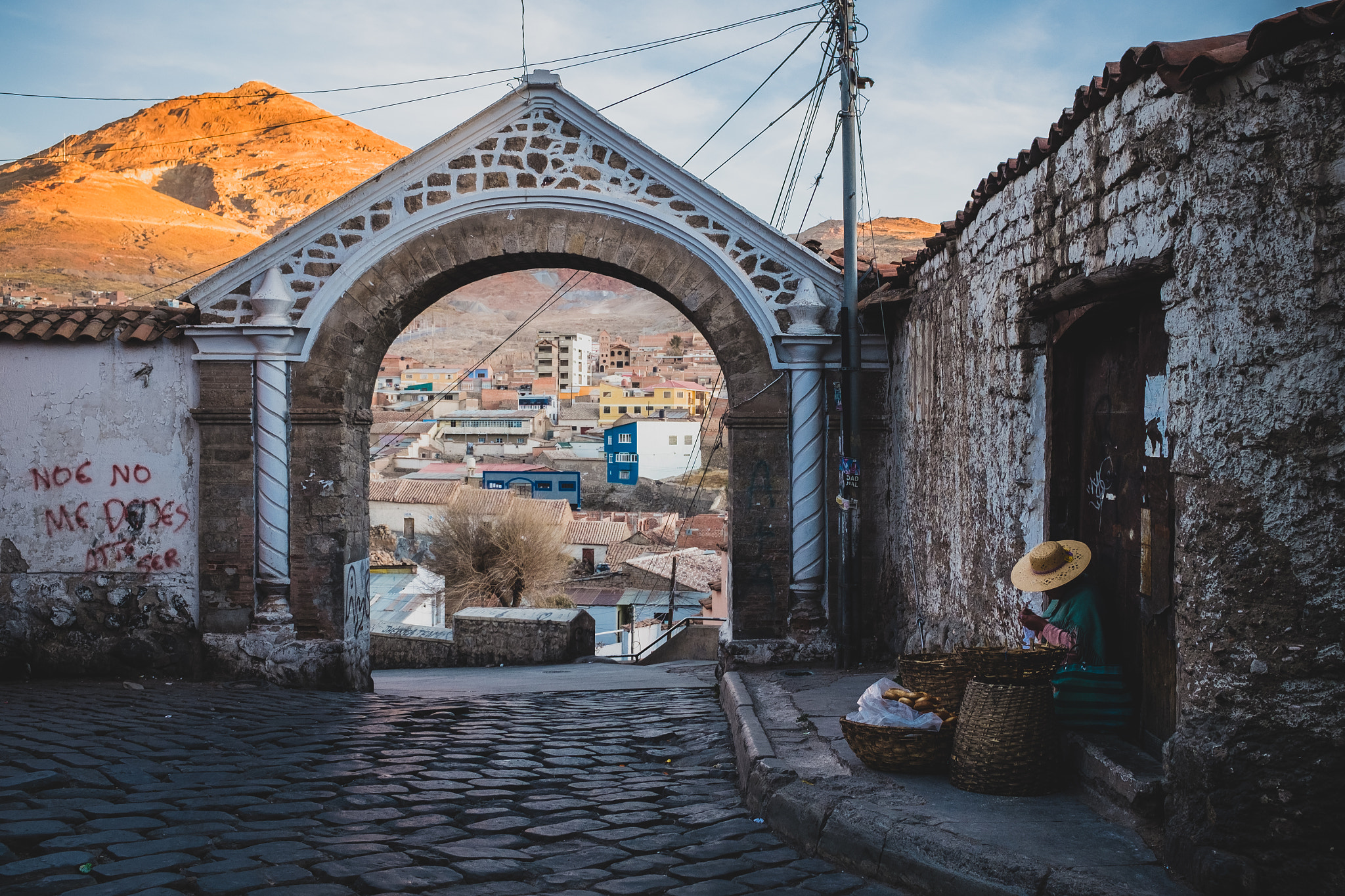 500px provided description: Potos?, Bolivia [#travel ,#500px ,#bolivia ,#flickr ,#facebook ,#google+ ,#X100S]